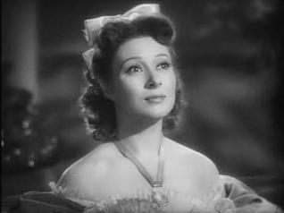 Cropped screenshot of Greer Garson from the trailer for the film Pride and Prejudice